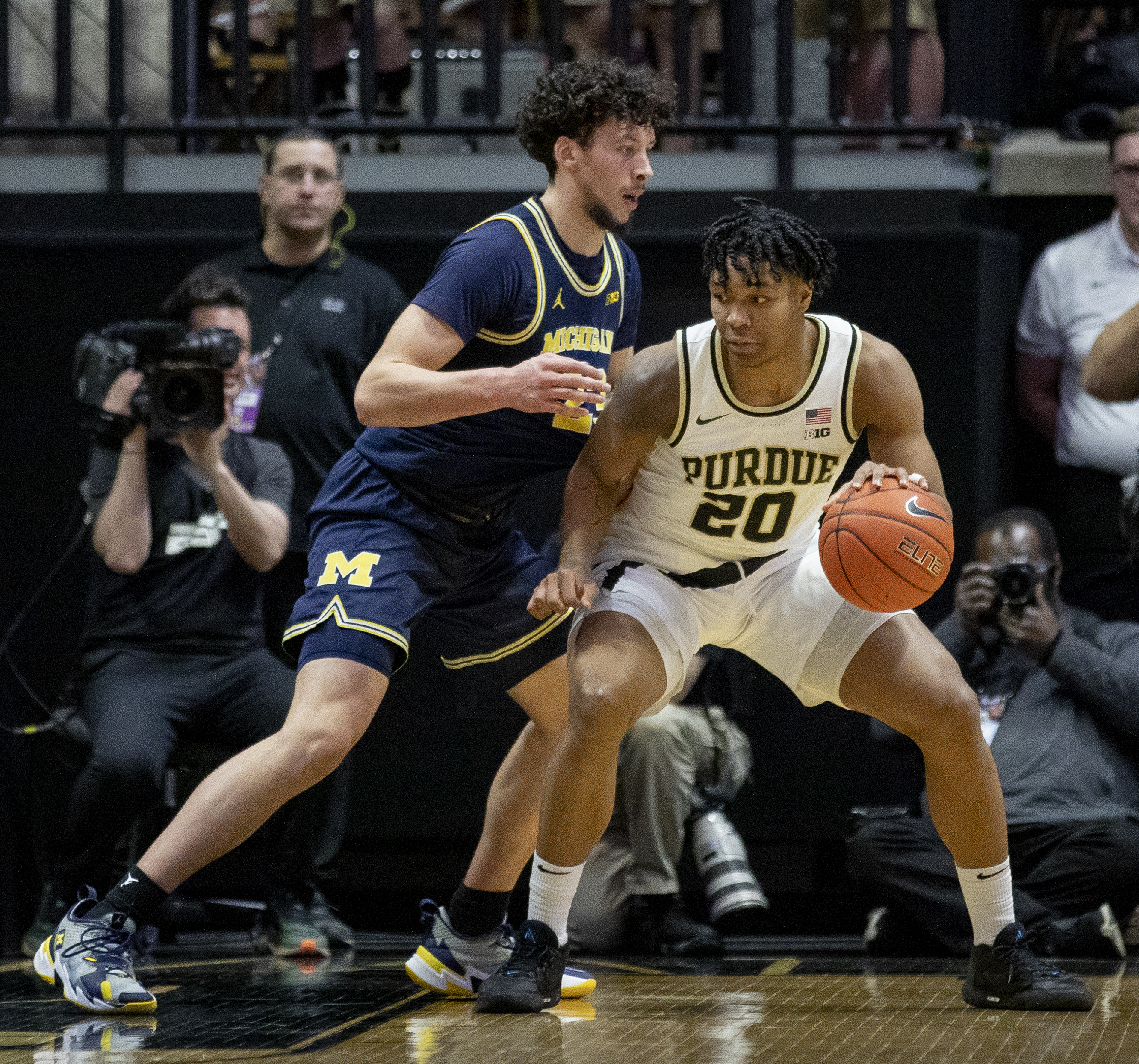 Brandon Johns defending Nojel Eastern